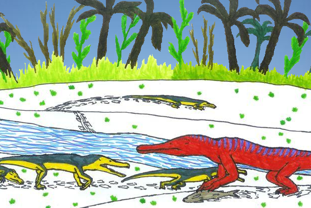 A Champsosaurus caught a fish while a group of Simoedosaurus walk to the river or lie down in the sand. Champsosaurus and Simoedosaurus were both choristoderes.